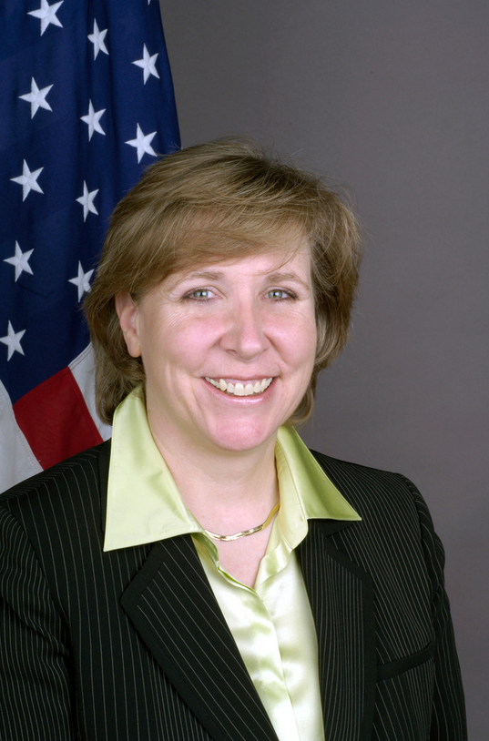 Official portrait of Christina Rocca, Assistant Secretary for South Asian Affairs [Photographer: Ann Thomas--State]